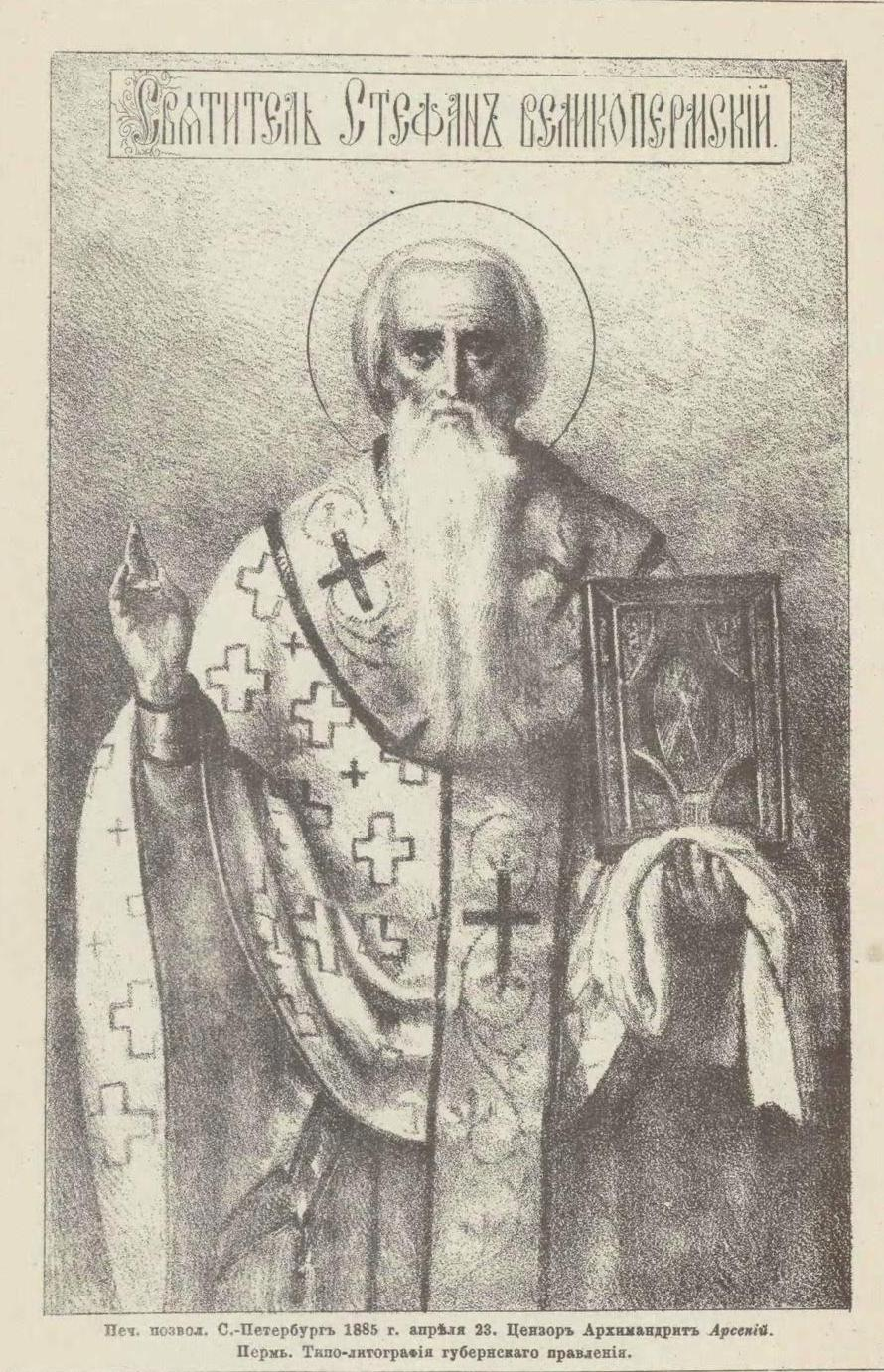 Stephen of Perm